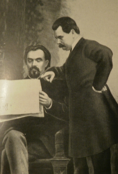 M. Staritsky and M. Kropivnitsky in the 1870's (М. Старицький і М. Кропивницький в 1870-і роки)